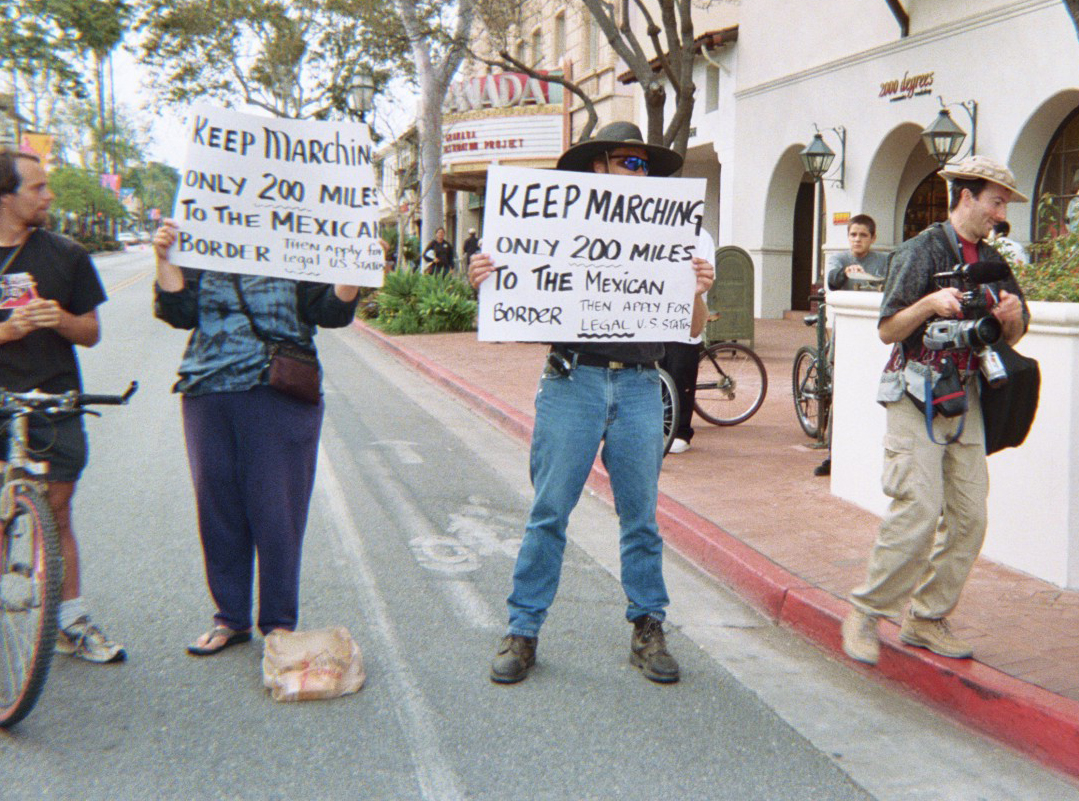 A photo of two counterprotesters on the corner of Figueroa and State Streets, Santa Barbara, California. May 1, 2006.